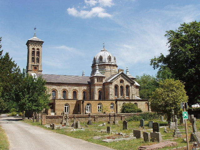 Church of England parish church of St James, Gerrards Cross, Buckinghamshire, seen from the southwest